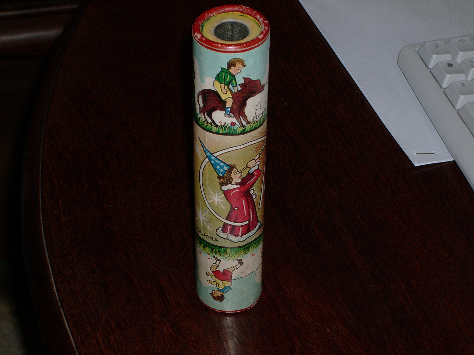 A toy kaleidoscope tube.